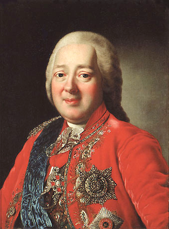 Portrait of Nikita Ivanovich Panin (1718-1783)